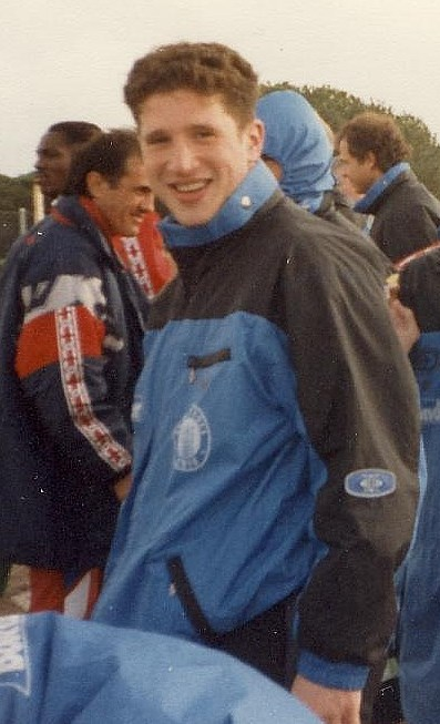 Jens Scharping 1996 as Player of FC St. Pauli